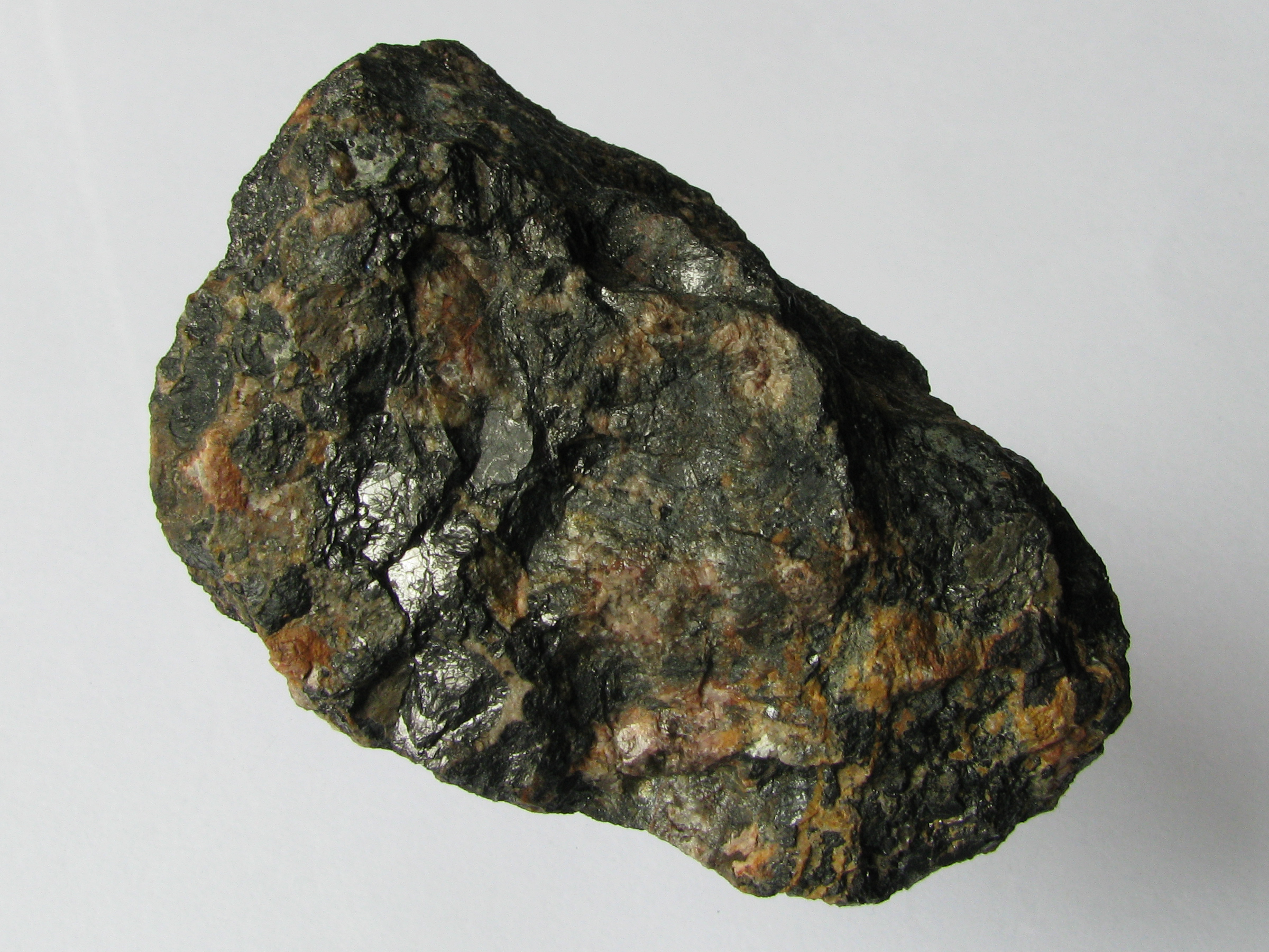 Pitchblende and coffinite - Zálesí (Javorník) uranium mine, Czech Republic.